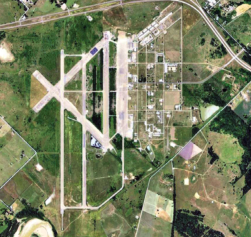 USGS digital orthophoto of Bryan Air Force Base in Texas